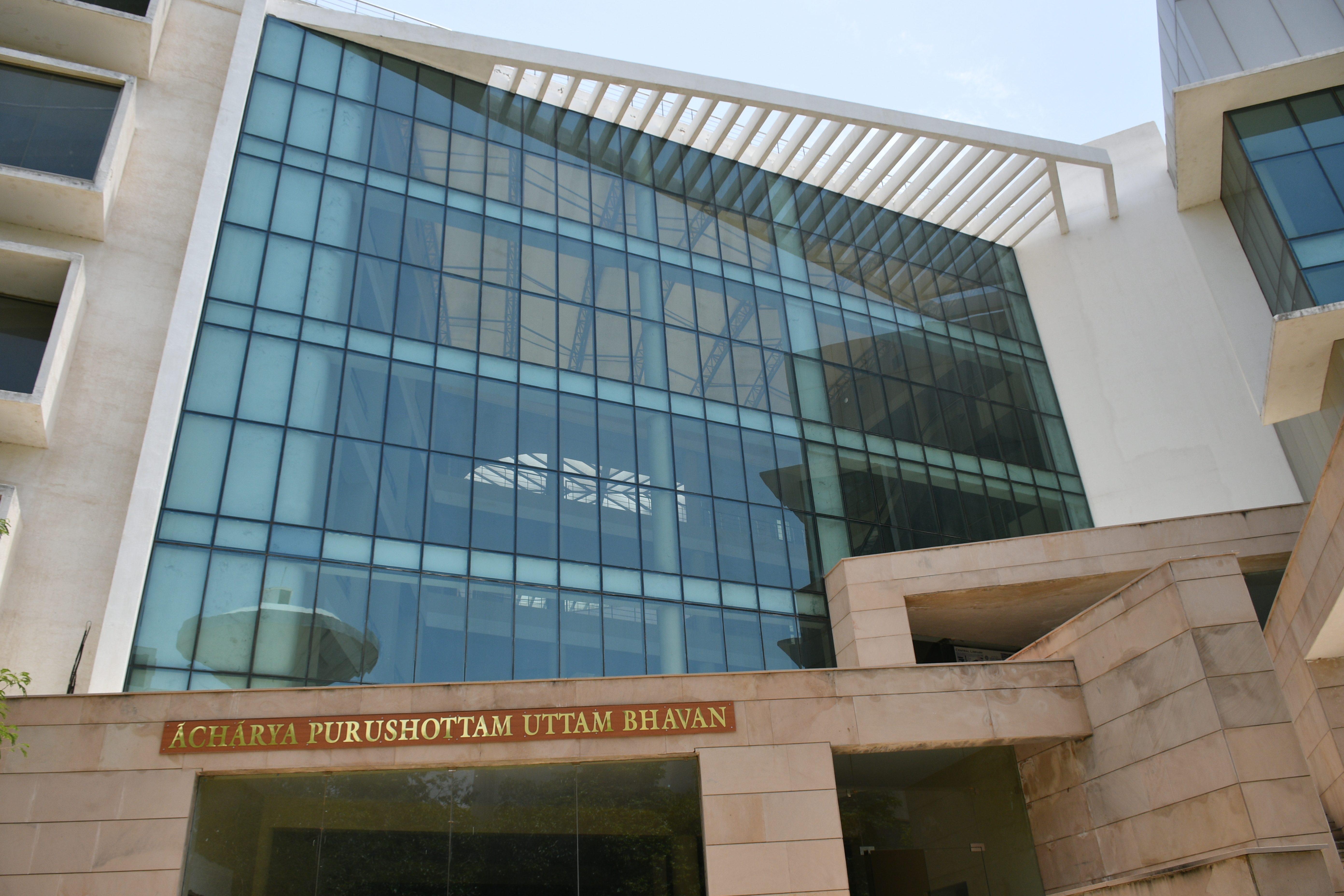 Acharya Purshottam Building